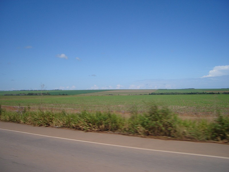 Fields near Vilhena, Rondônia State, Brazil.